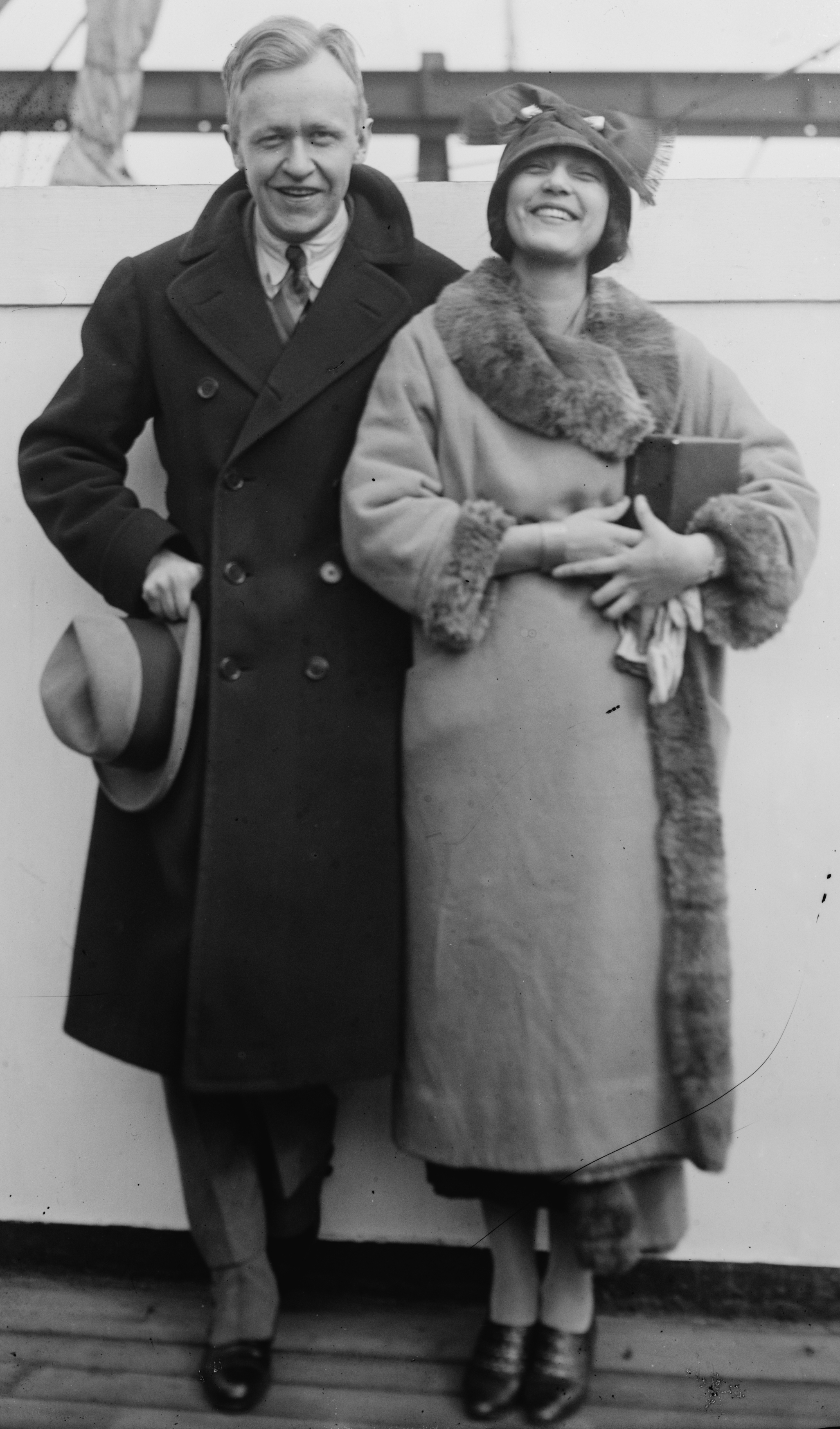 American playwright Avery Hopwood (1882-1928) with dancer and choreographer Rose Rolanda (1895-1970)